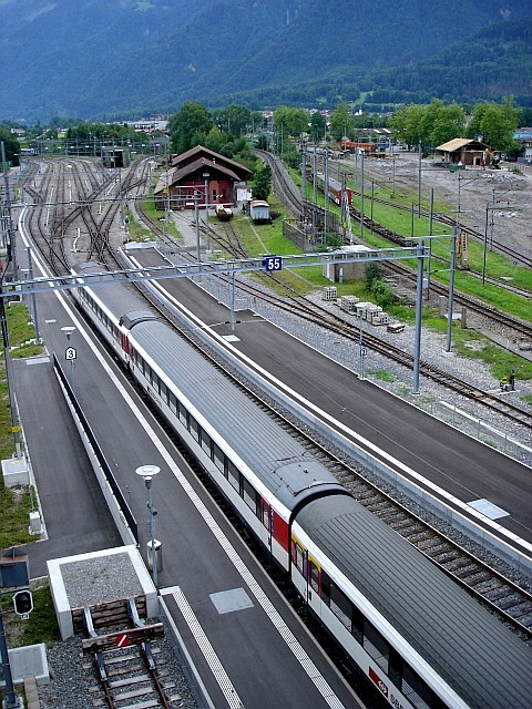 Interlaken